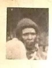 An undate portrait of Paramount Chief Runyenje Wa Mukobo made by cropping from a group photograph